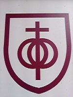 Maria College Logo